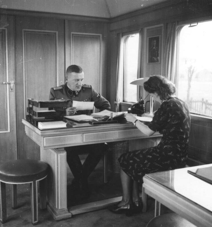 Special train of the Central Immigration Office for the processing of settlers: the leader of the Special Trains, SS-Obersturmbannführer (lieutenant-colonel) Wagner.